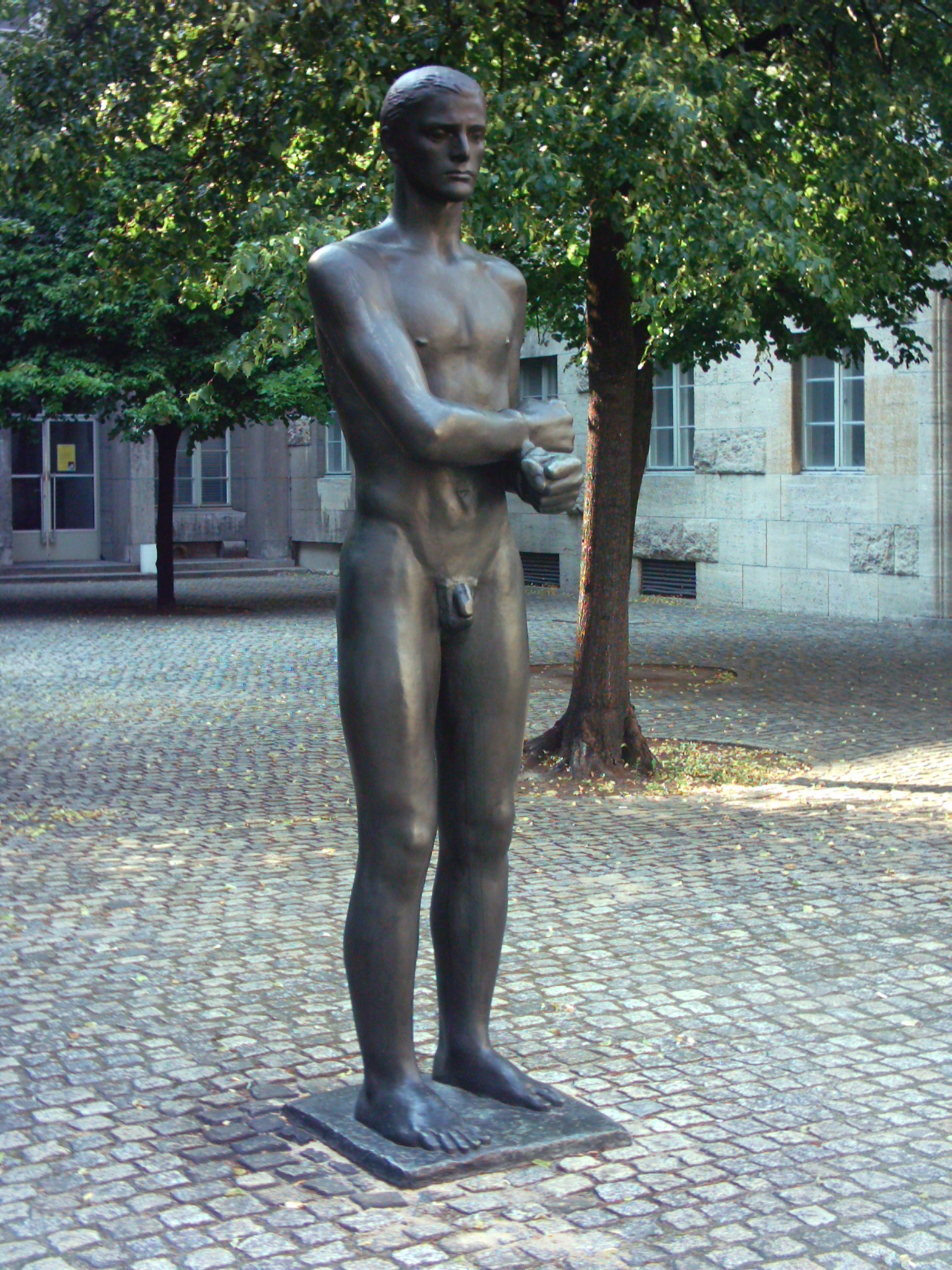 A statue at court of Bendlerblock (German Resistance Memorial Center) in Berlin.